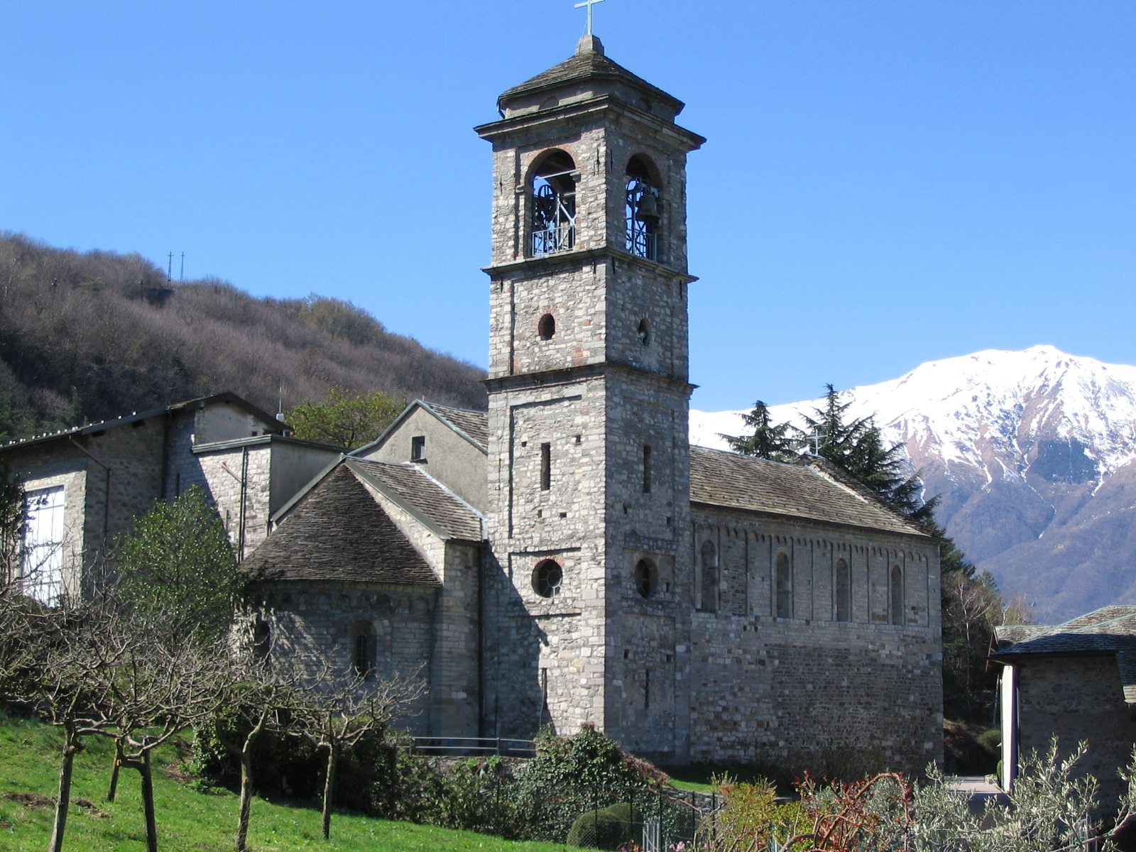 Priorato di Piona: back view of the abbey. Picture by: Giorces.